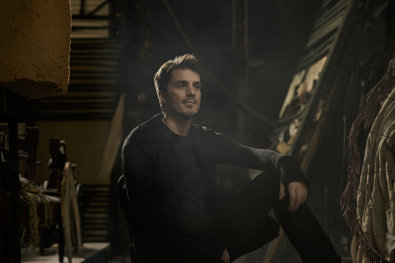 Photo by Andrew Kovalev